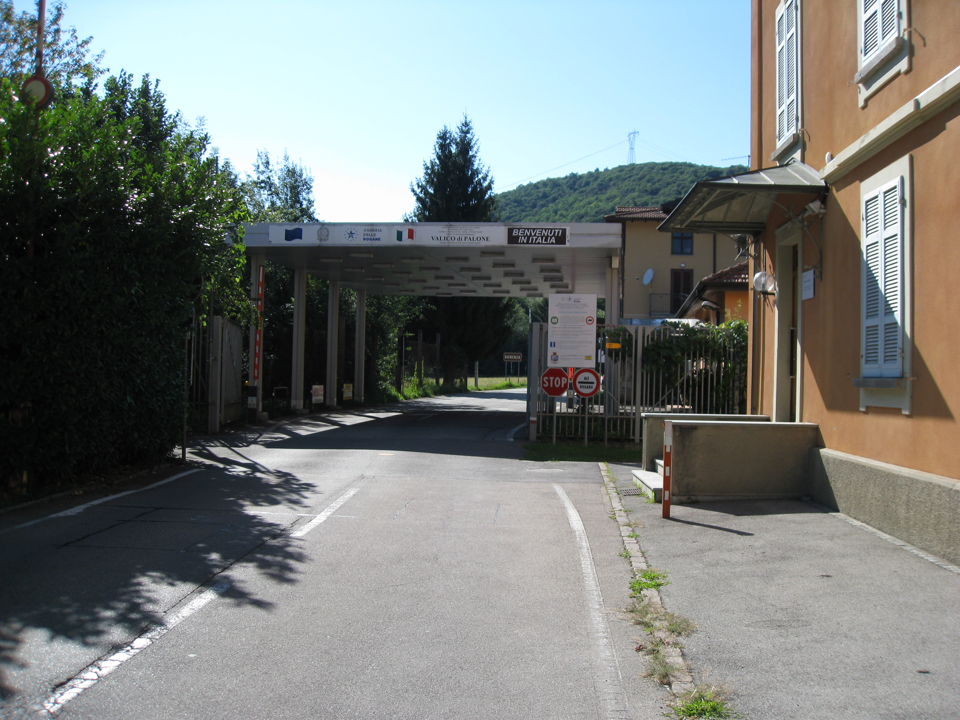 I borderstation